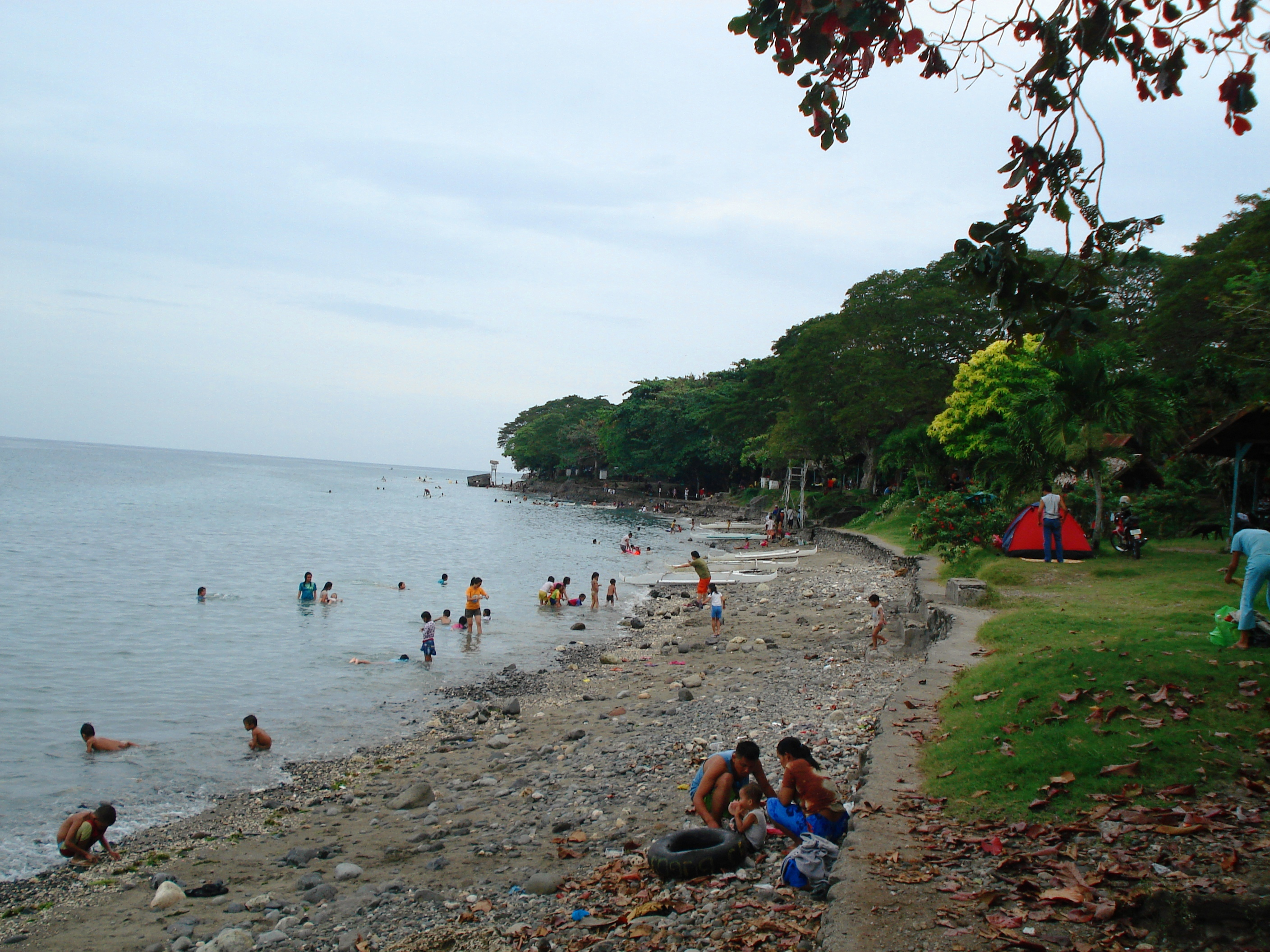 Zamboanga Golf and Country Club - Zamboanga City